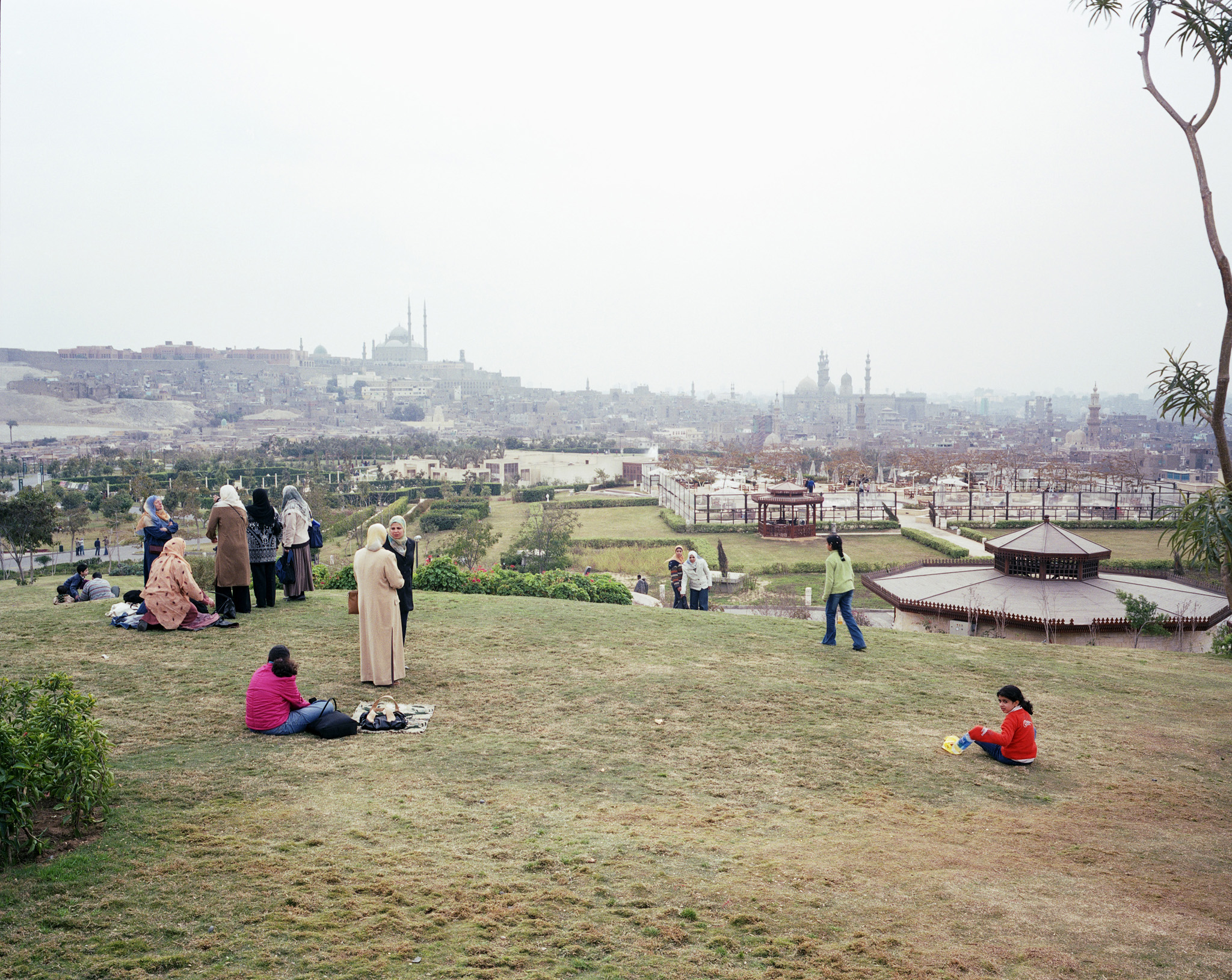 Al-Azhar Park in Cairo, with the Cairo Citadel in backround skyline.